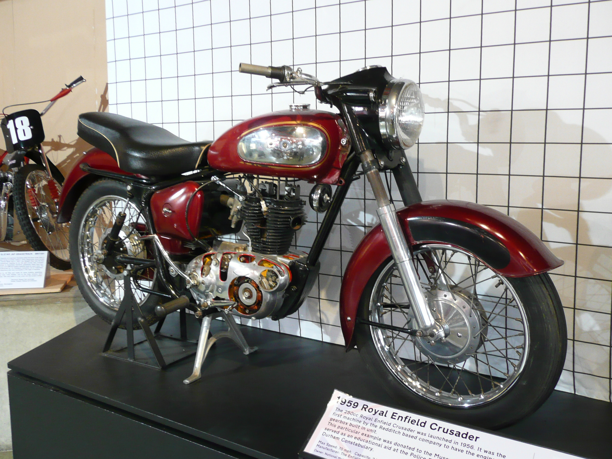 1959 Royal Enfield Crusader, National Motor Museum in Beaulieu.